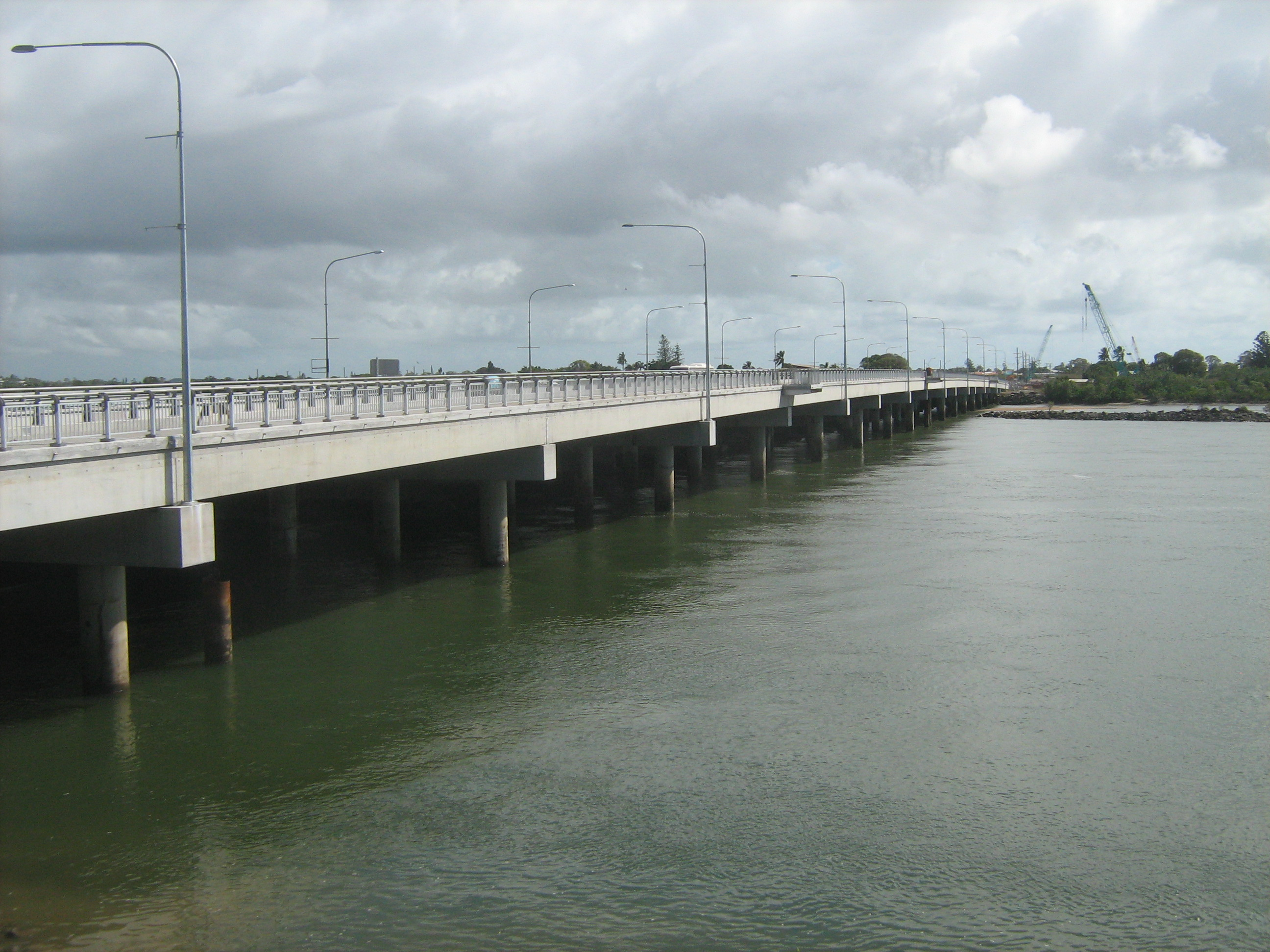 Newly constructed Forgan Bridge, Mackay, 2010